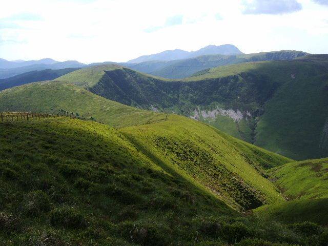 Craig Portas , from the slopes of Craig Rhiw-erch The summit of Cadair Idris can be seen in the distance, Waun-oer is out of the picture to the right. The dark cliff face of Craig Portas is above the centre of the landscape.